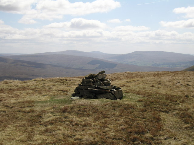 Yarlside summit carn